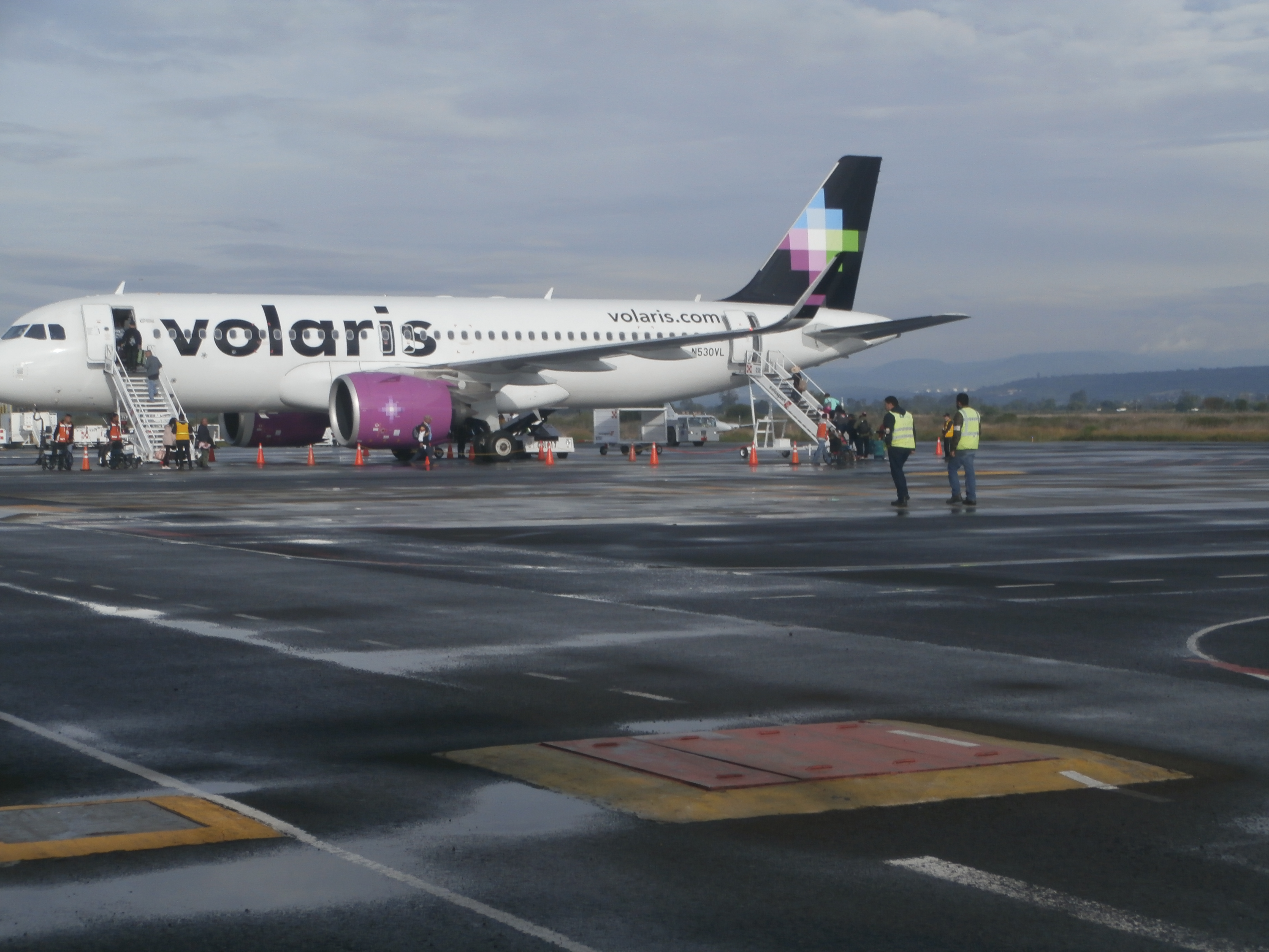 Volaris A320-271N (N530VL) at Morelia Airport ready to begin the flight 990 to Oakland, CA